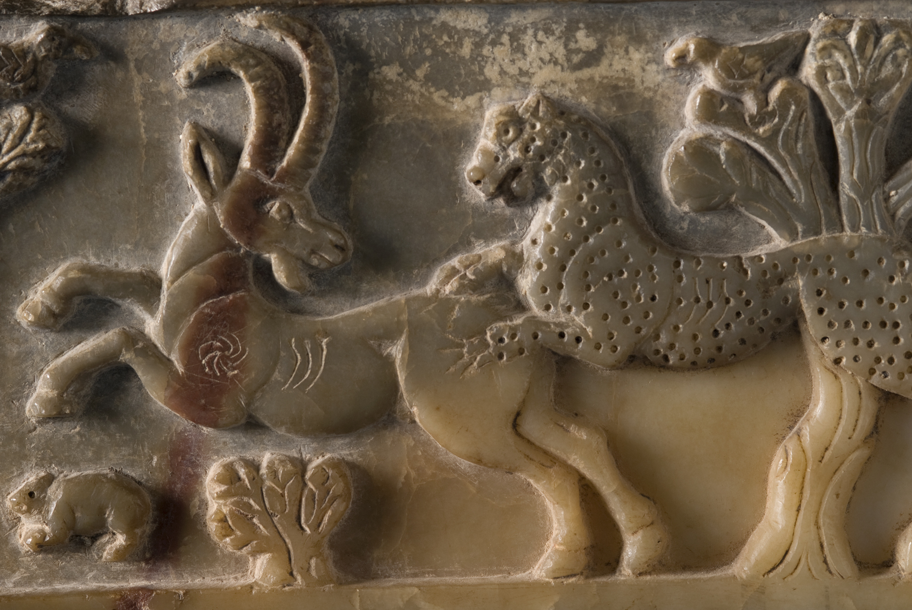 On the left side of this relief, an Asiatic lion attacks a gazelle, while a rabbit tries to jump away from the gazelle's forelegs. On the right, a leopard jumps down from rocks onto the back of an ibex; a small rodent flees the hoofs of the ibex. Birds in the branches of acacia trees observe the two scenes. The frieze was broken in two during the civil war in Yemen in 1962, and the longer right section was discolored by fire.